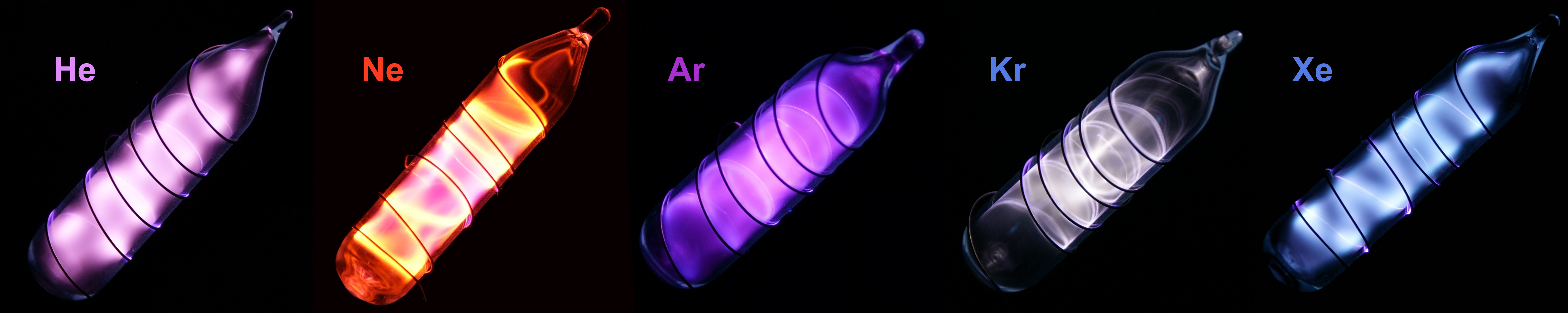 Glowing noble gases in glass vials with low pressure inside. Power supply: 5 kV, 20 mA, 25 kHz.